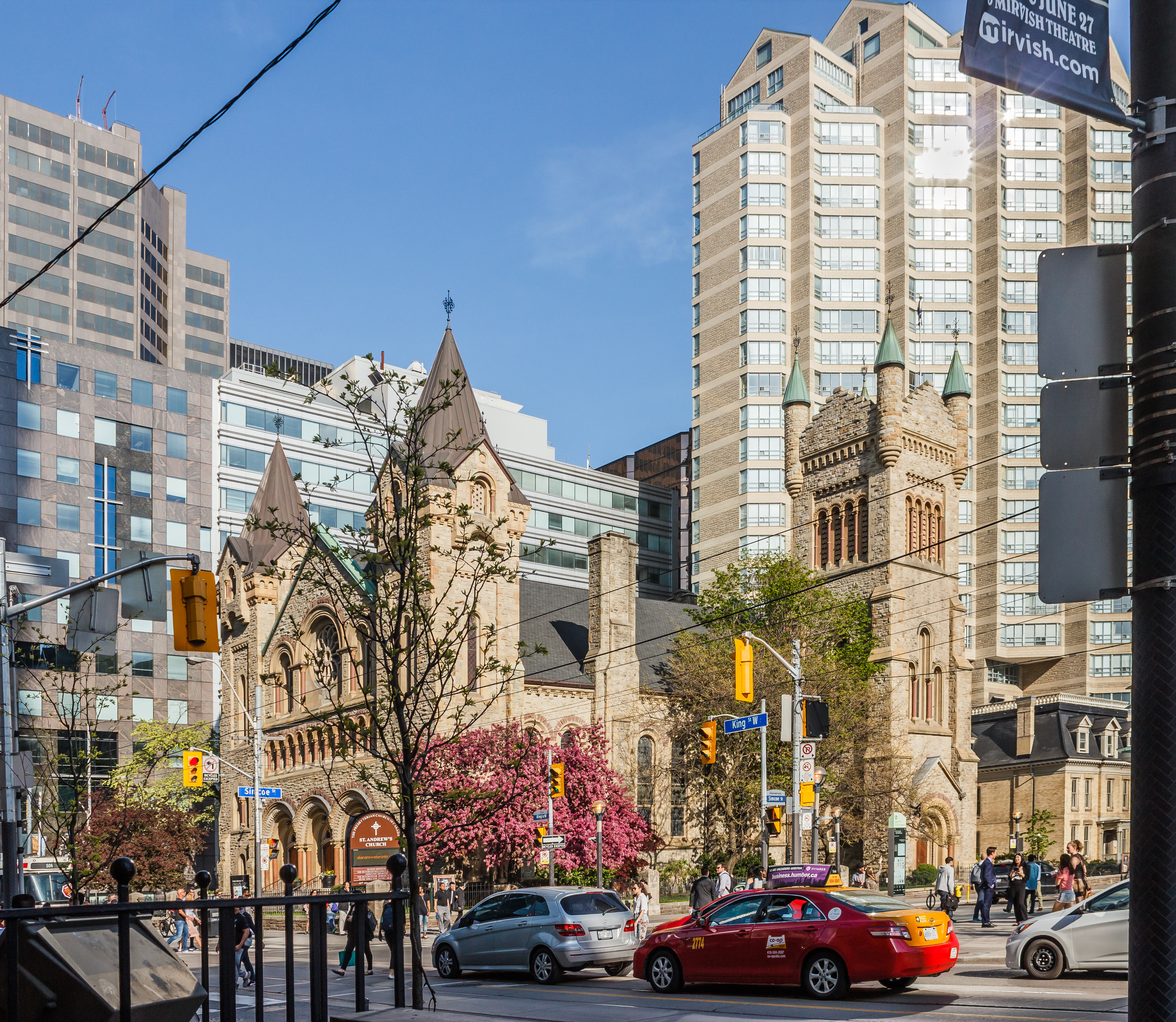 St Andrew's Presbytarian Church as seen from Lone Star Texas Grill at the corner of King St W and Simcoe St, Toronto, Ontario, Canada